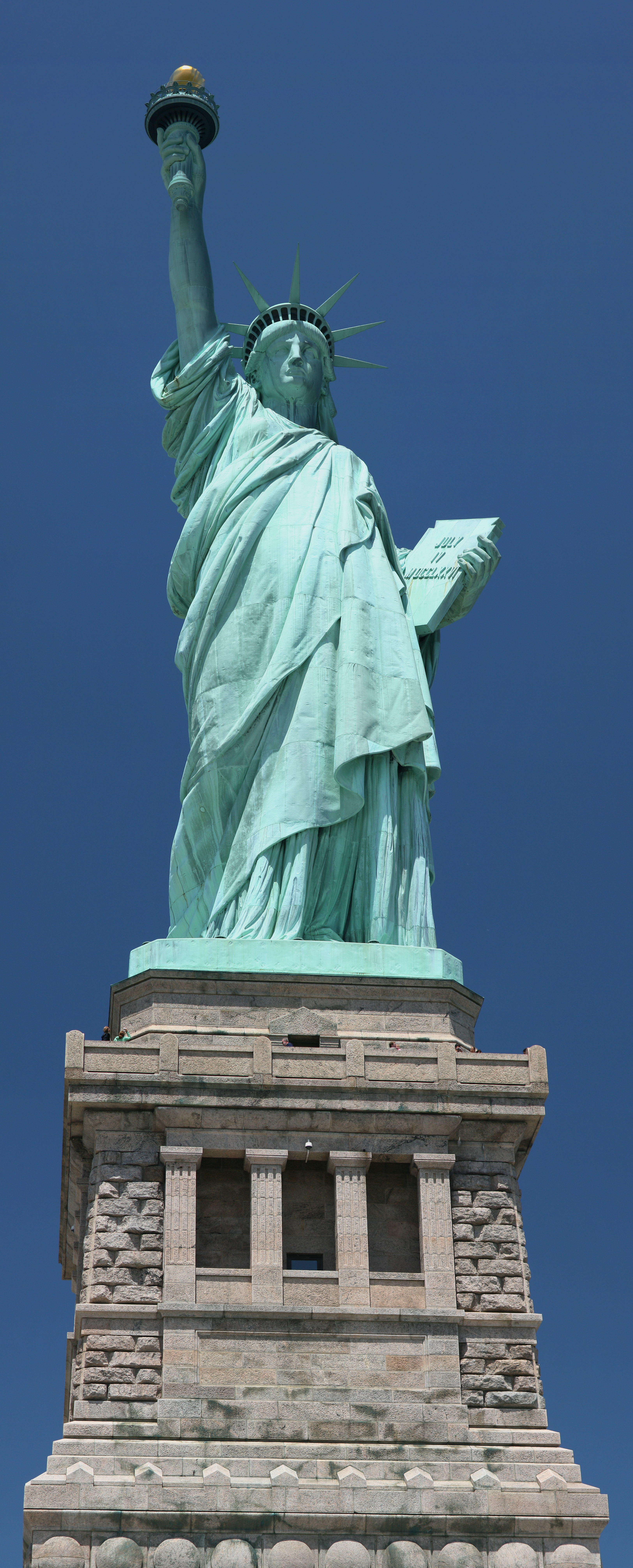 View of the Statue of Liberty from Liberty Island This image was created with Hugin.